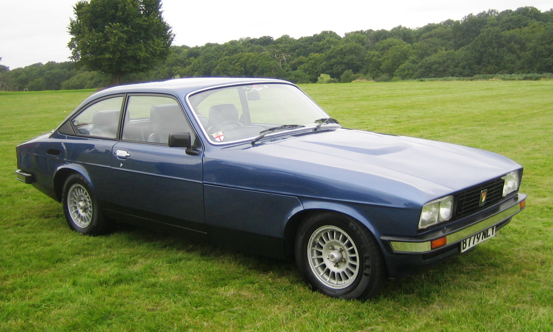 Bristol Brigand at Knebworth Classic Car Show